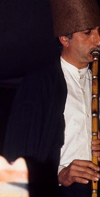 Ney master Niyazi Sayın, as head ney player (serneyzen), playing the opening improvisation (baş taksimi) at the 1970 annual Mevlana Festival in Konya, Turkey.